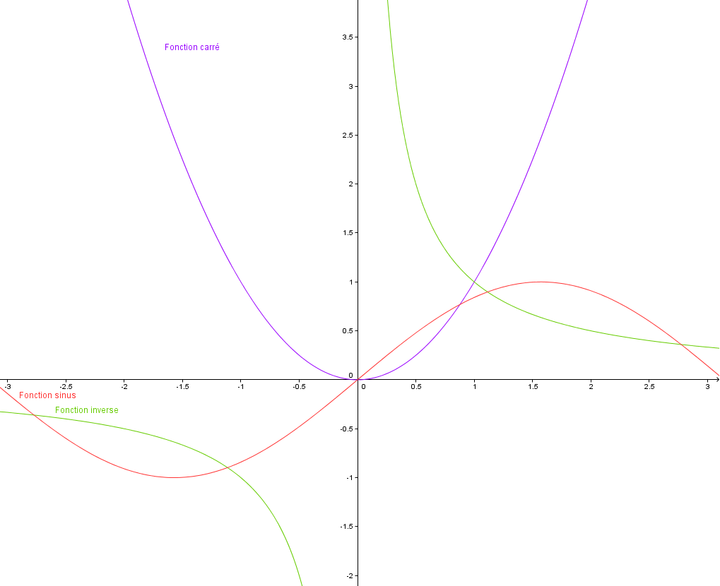 Three reference functions : square, sine and 1/x